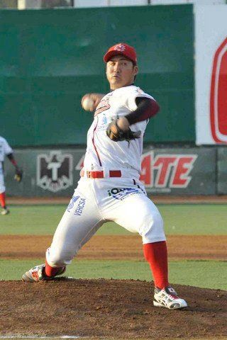 baseball players